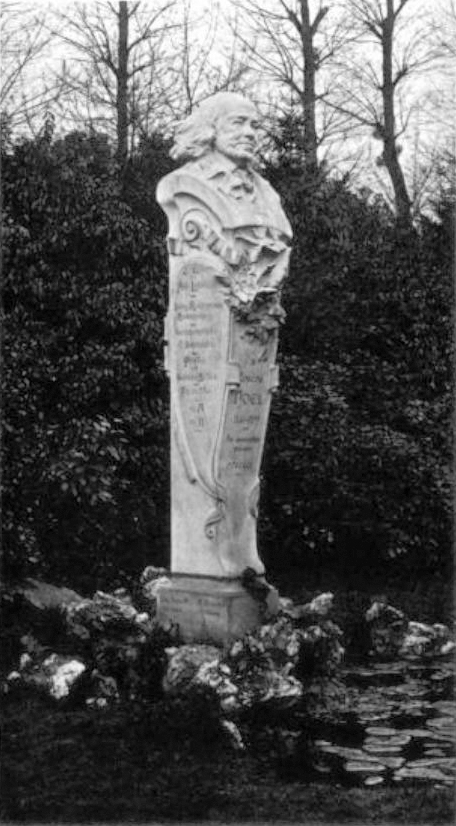 Bust of Eugène Noël (1816 – 1899), Norman writer.